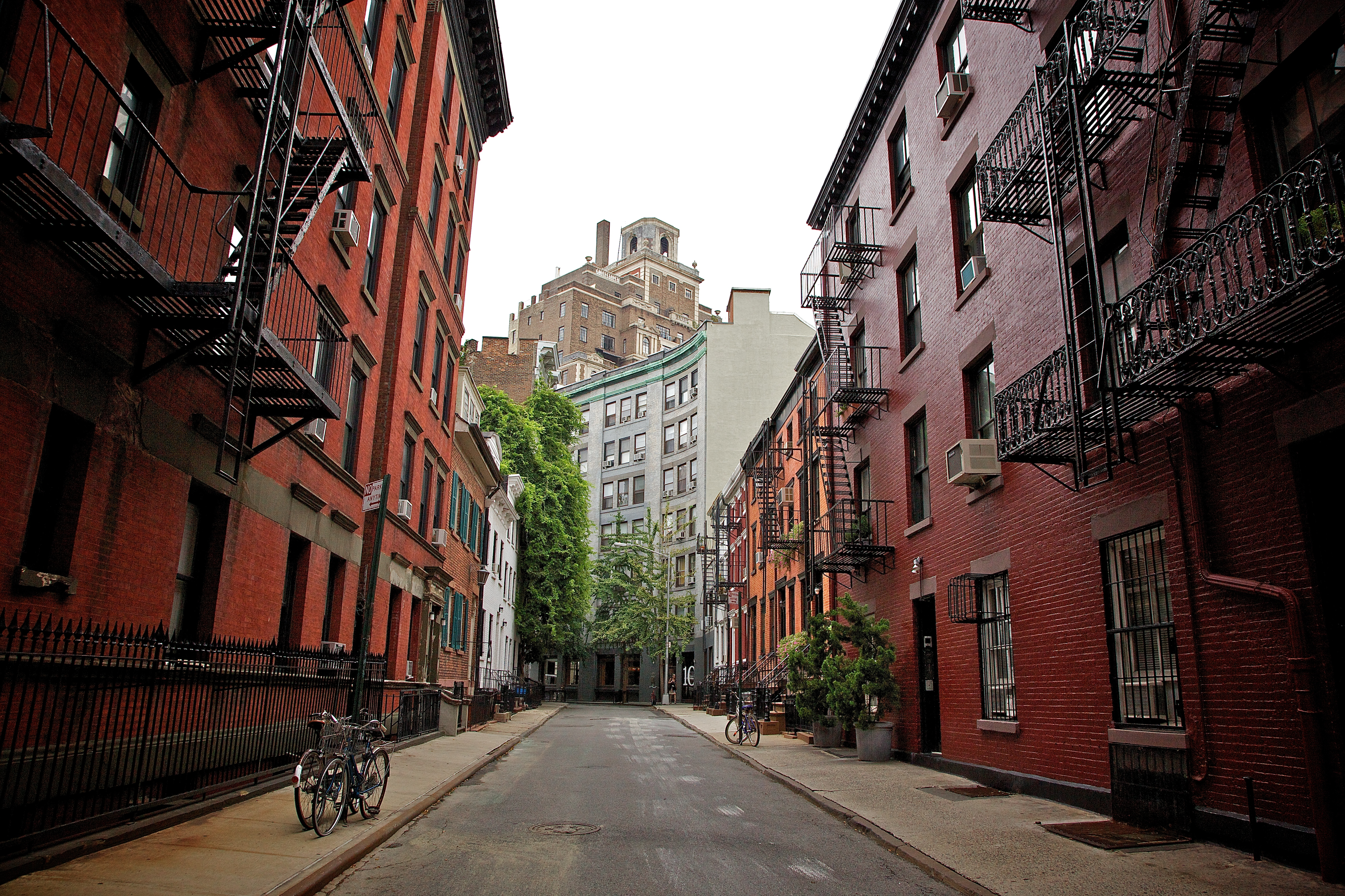 Gay Street, Manhattan